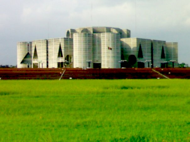 Jatiyo Sangshad Bhaban houses the Bangladeshi national parliament.